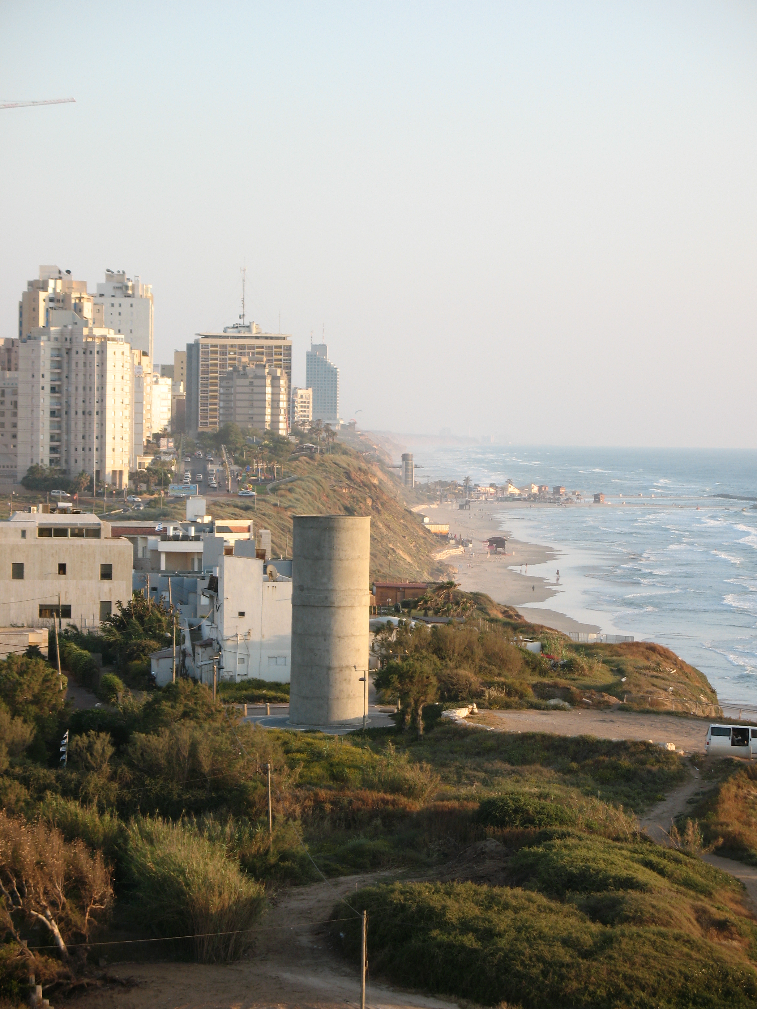 Netanya, Israel. Right part of this composed image.